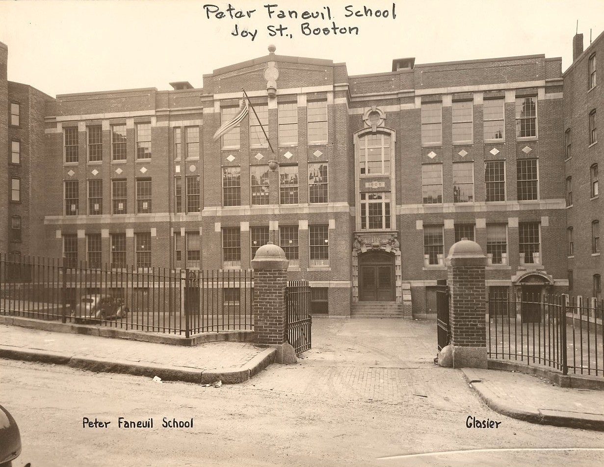 Peter Faneuil School (Exterior)